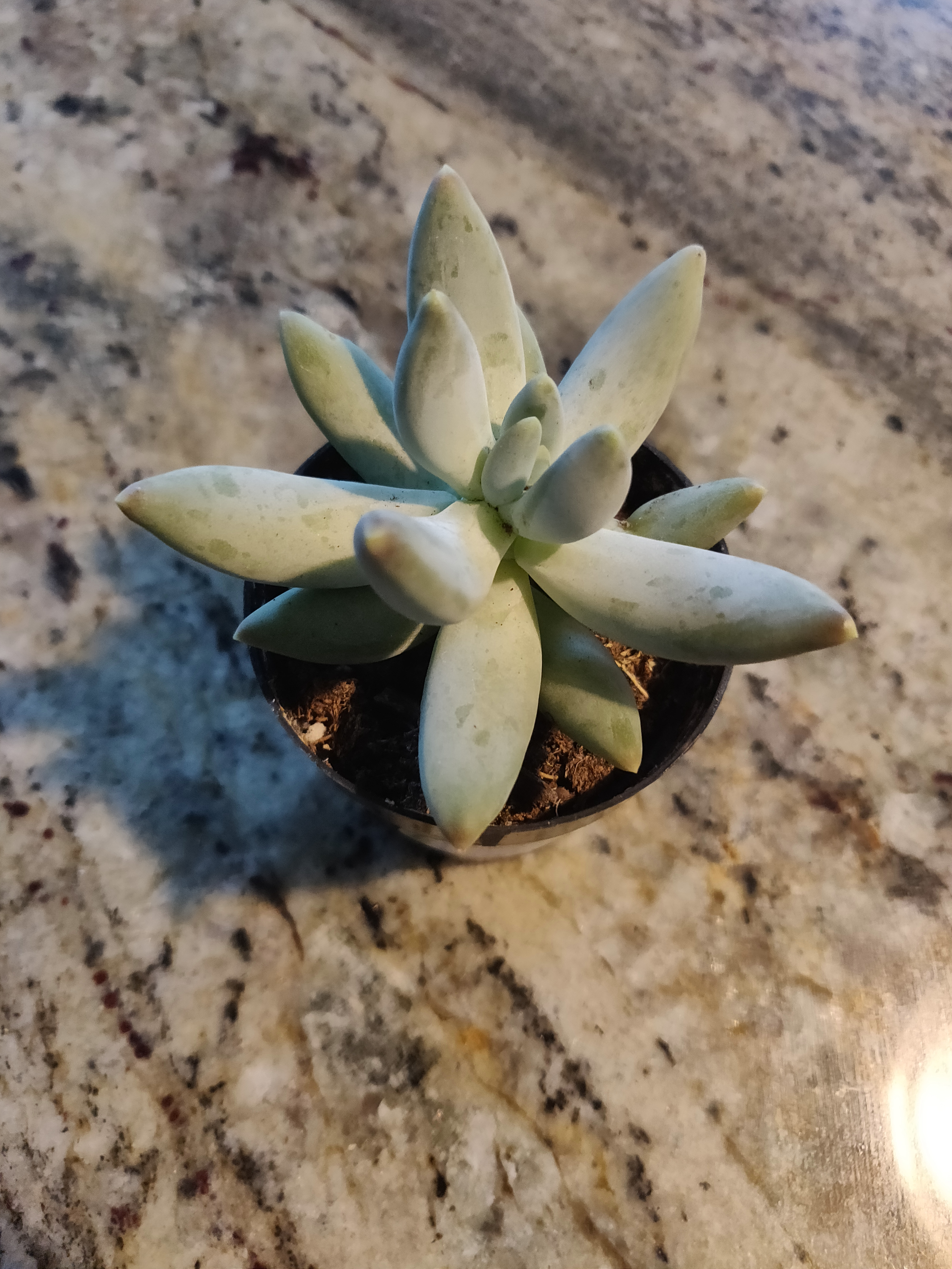 A top view of a small Pachyphytum bracteosum succulent